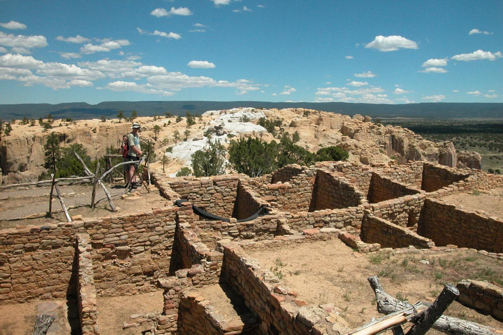 El Morro National Monument, 2 miles west of El Morro via State Road 53 El Morro